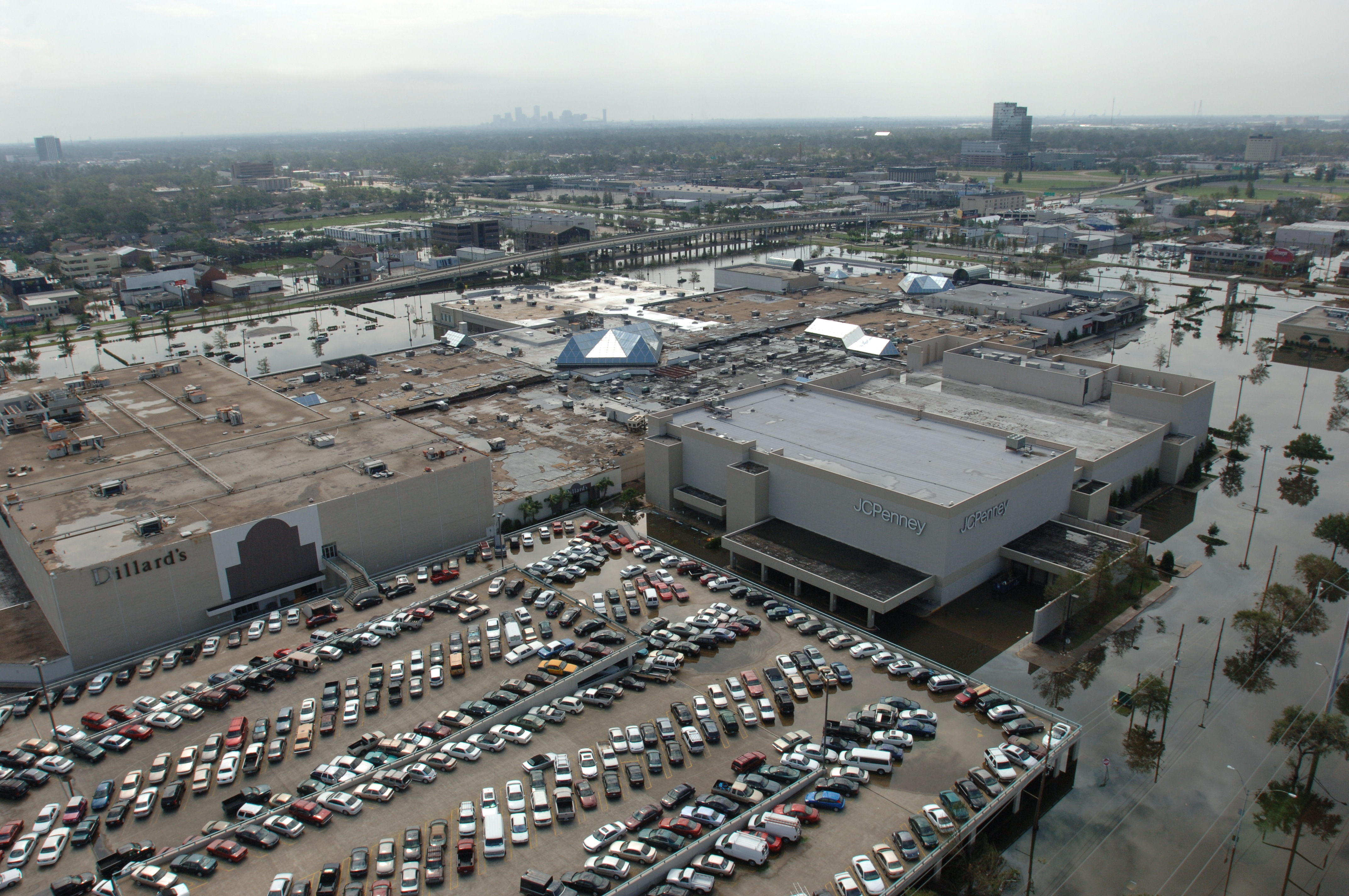 The Lakeside Mall in Metairie, Louisiana, having flooded after Hurricane Katrina. The view is from the air looking to the south/southeast. Causeway Boulevard with its elevated overpass is to the left; Veterans Boulevard runs perpendicular to it just away from the mall. The skyline of New Orleans Central Business District can be seen in the distance at the upper left.